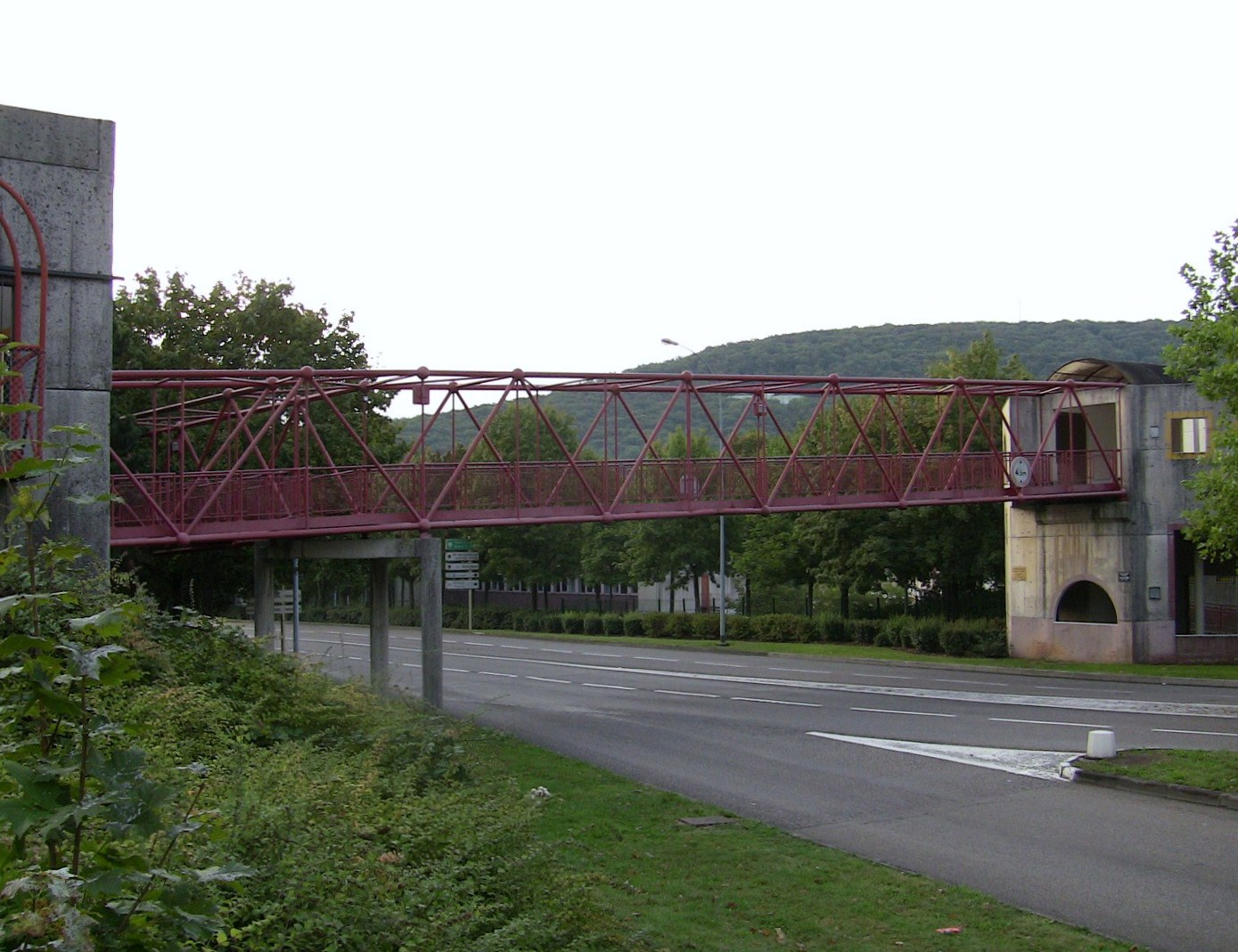 The bridge of Planoise, in Besançon (Doubs, France)